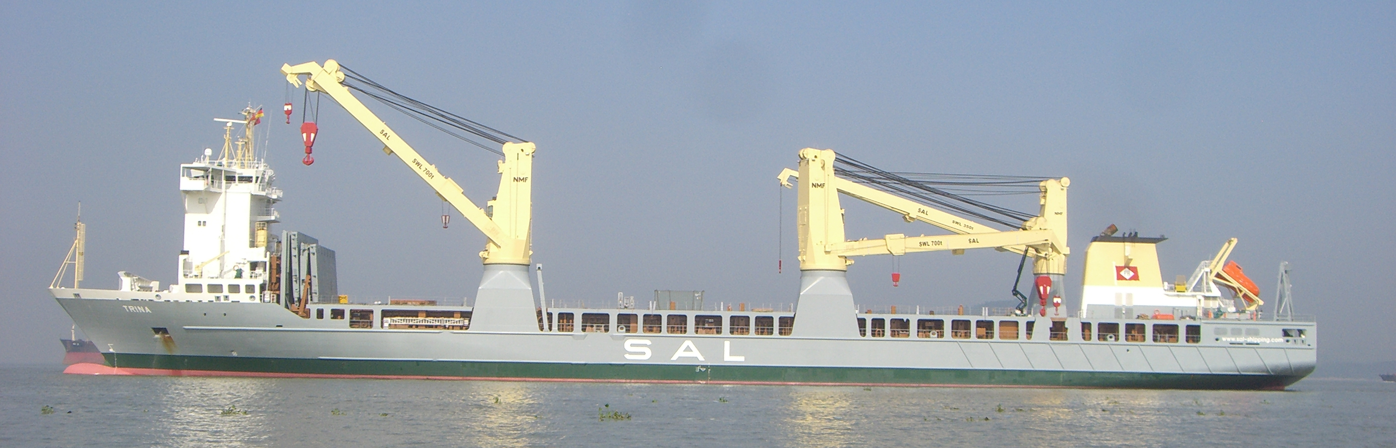 MV Trina 2 x 700t + 1 350t Crane IMO Number: 9376505 MMSI Number: 218705000 Callsign: DFVI2 Length: 160 m Beam: 24 m Information about Trina may be found at IMO 9376505. A ship can change her name and flag state through time, but the IMO number remains the same through the hull's entire lifetime. Therefore, it's useful to identify a ship through her IMO number.